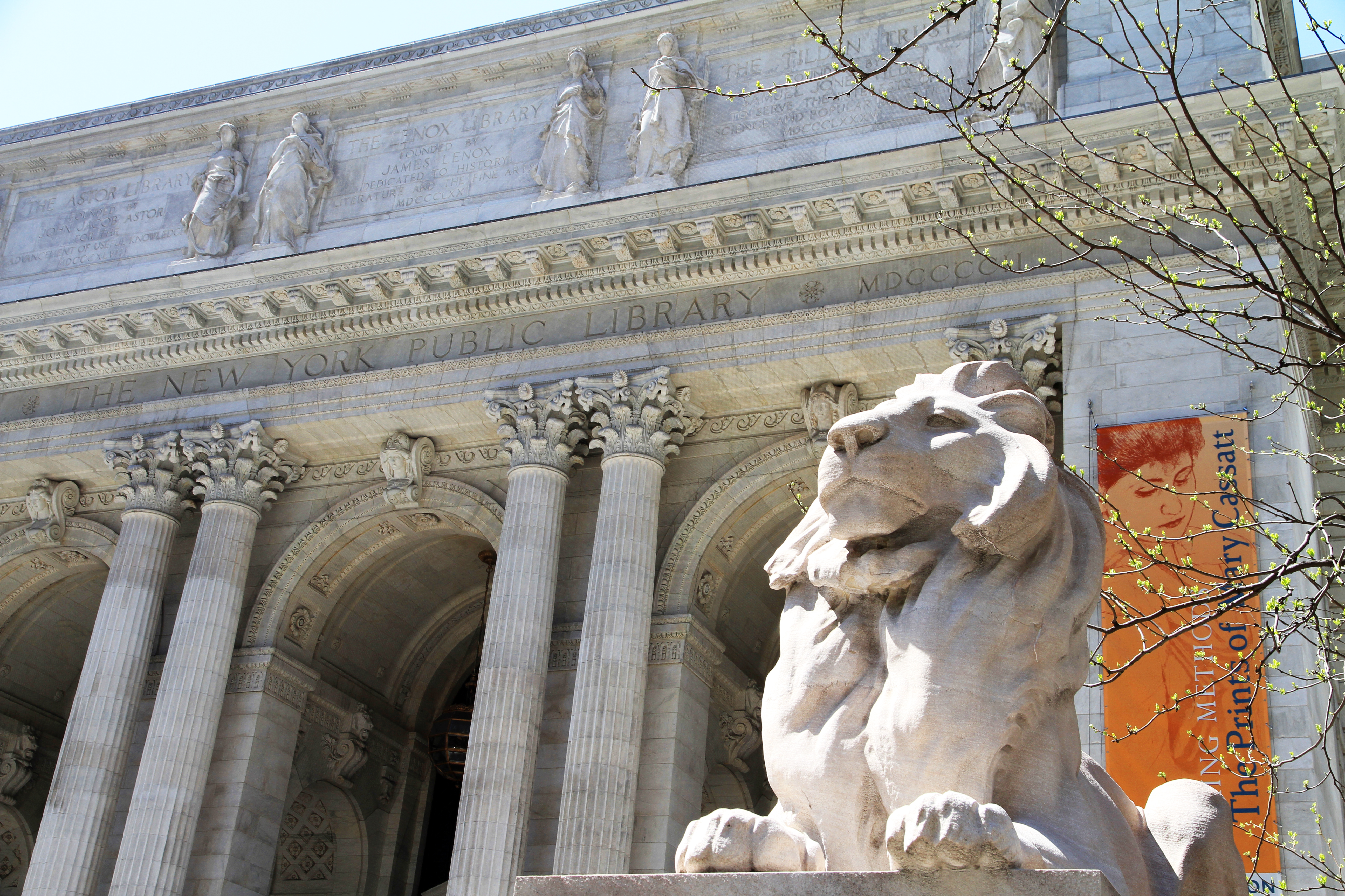 New York Public Library, 2013